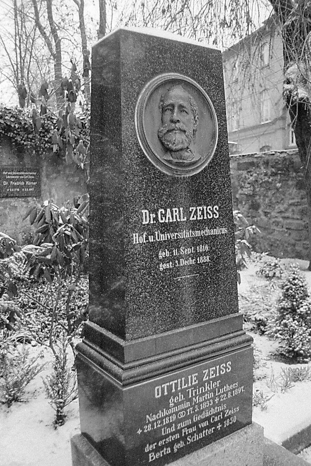 September 11, 1816 - December 3, 1888 Images donated as part of a GLAM collaboration with Carl Zeiss Microscopy - please contact Andy Mabbett for details.